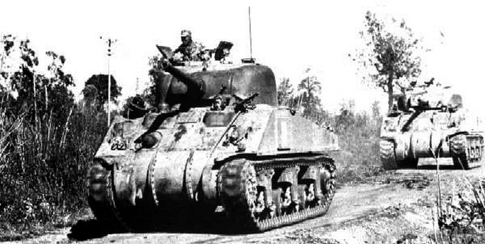 M4A4 Sherman tank, part of the Provisional Tank Group. This was taken in East Burma, in relation to fighting over the liberation of Burma.